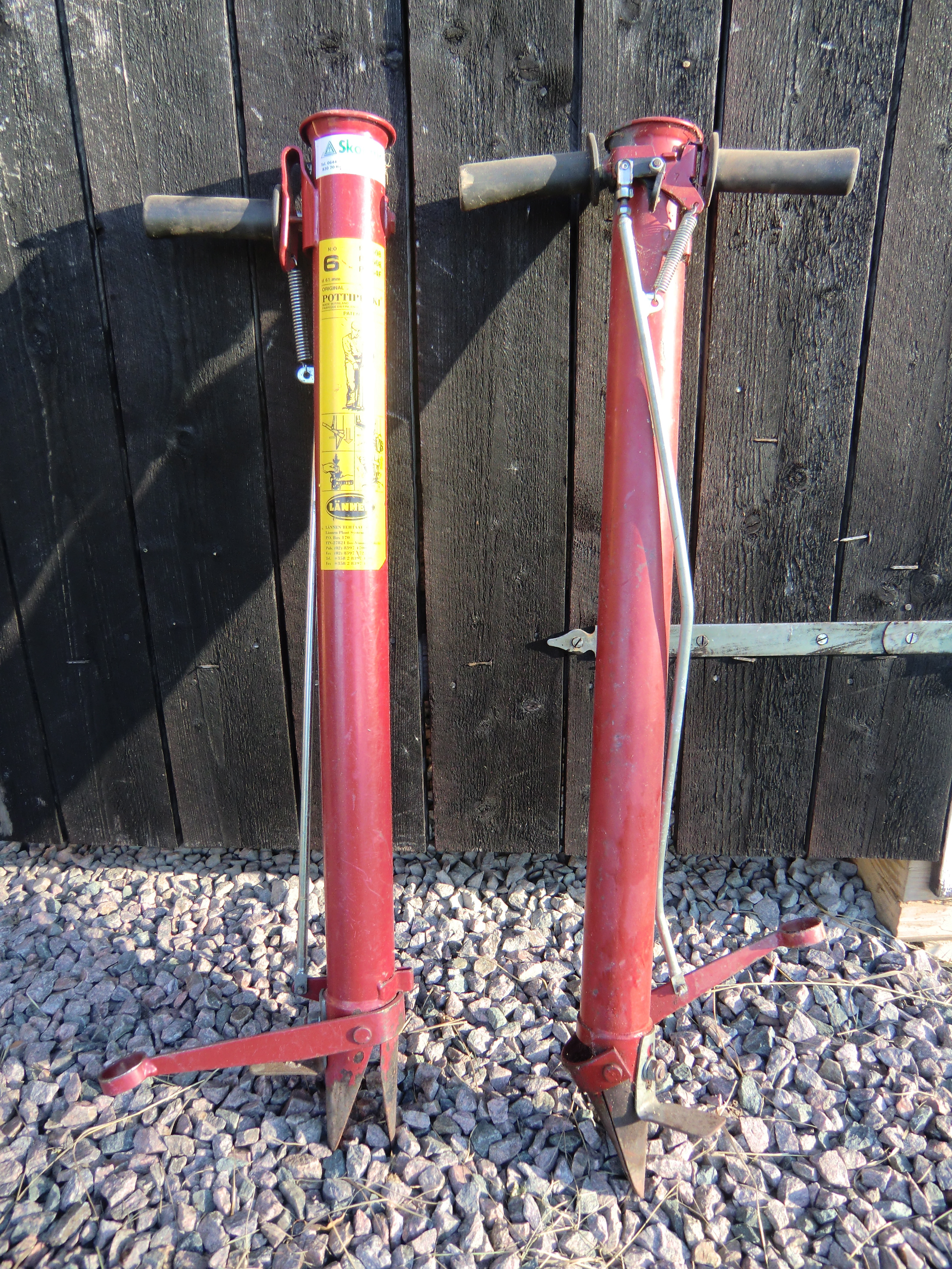 Pipes for forest plants in Sweden.